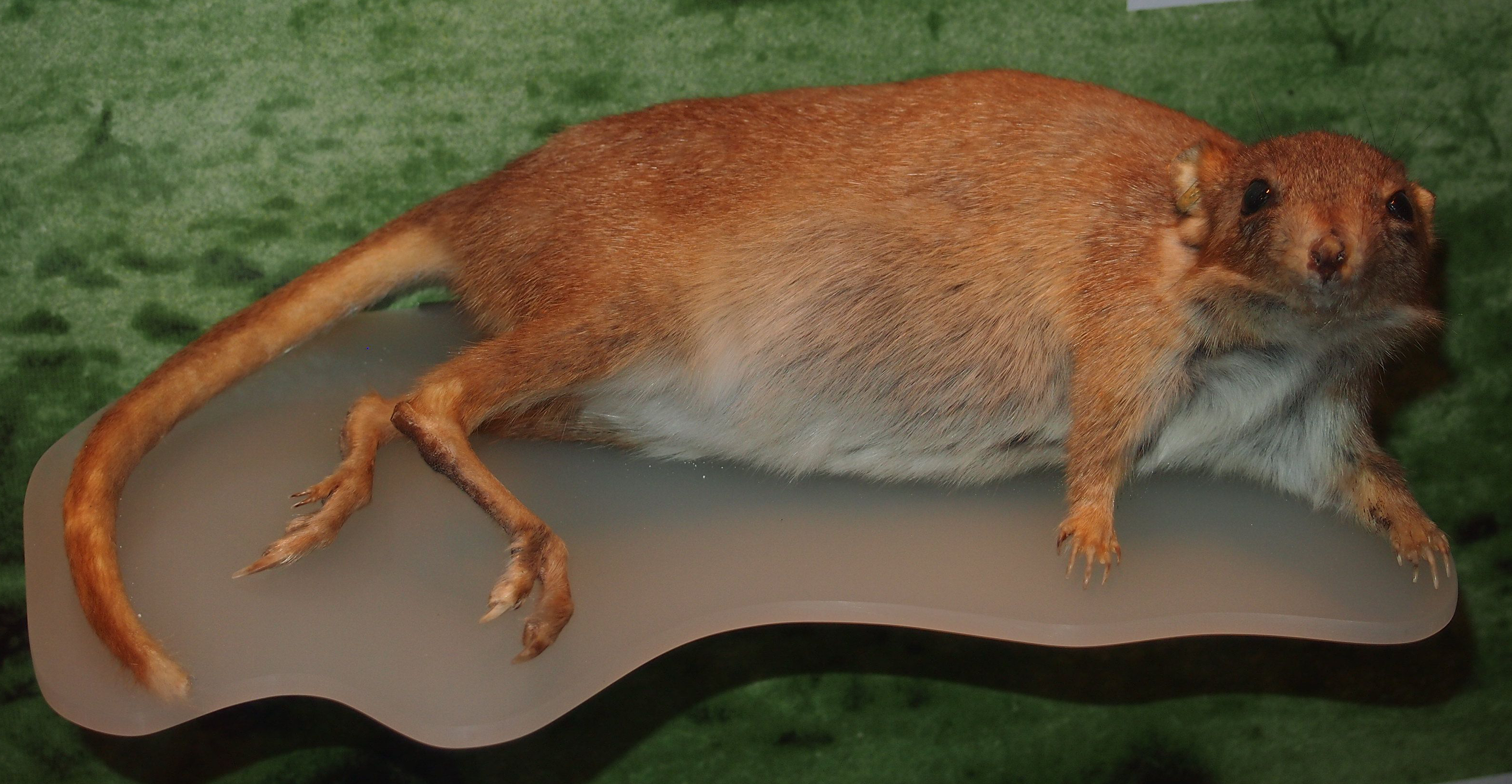 Bettongia lesueur, mounted specimen, Central Australian Museum